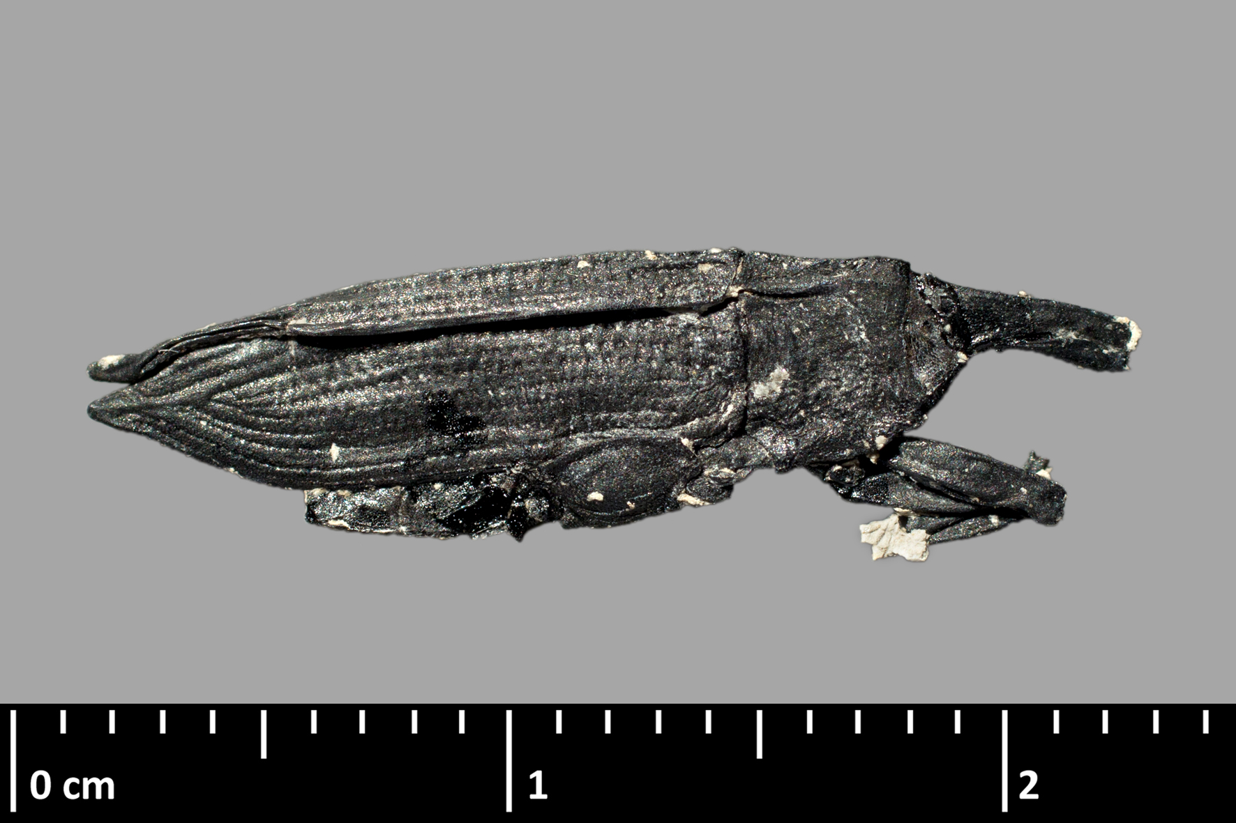 The Lixus (Eulixus) balazuci holotype, right side with direct lighting. Turolian, Miocene; Montagne d'Andance, Saint-Bauzile, Privas, France Muséum national d'Histoire naturelle specimen MNHN.F.R10381